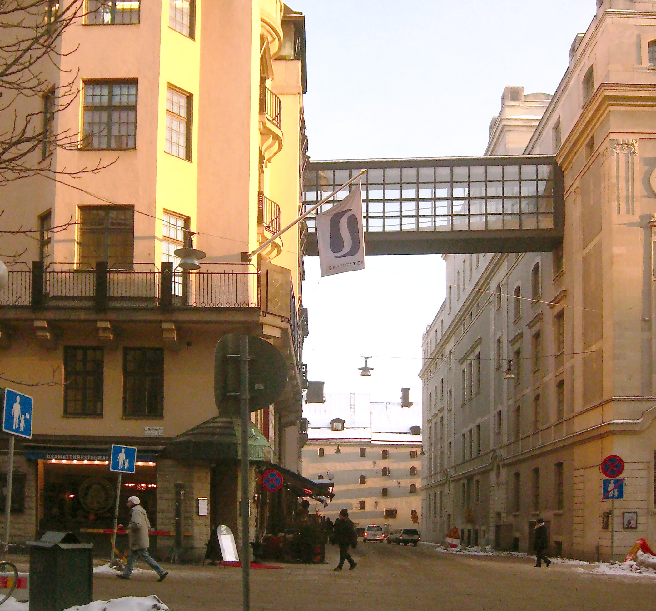 Almlöfsgatan from Nybrogatan.